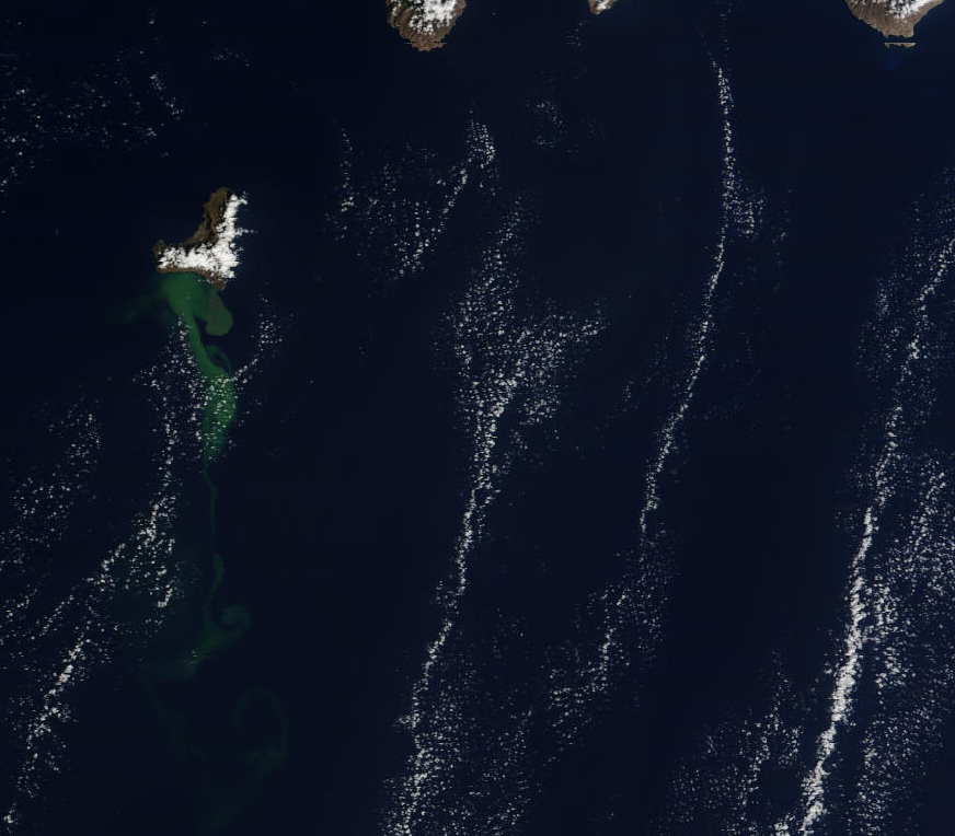 Submarine volcanic plume in El Hierro (Canary Islands, Spain). October 23, 2011. The image (cropped from original) was obtained by MODIS sensor of Terra Satellite. True color. Pixel resolution = 500 meters.